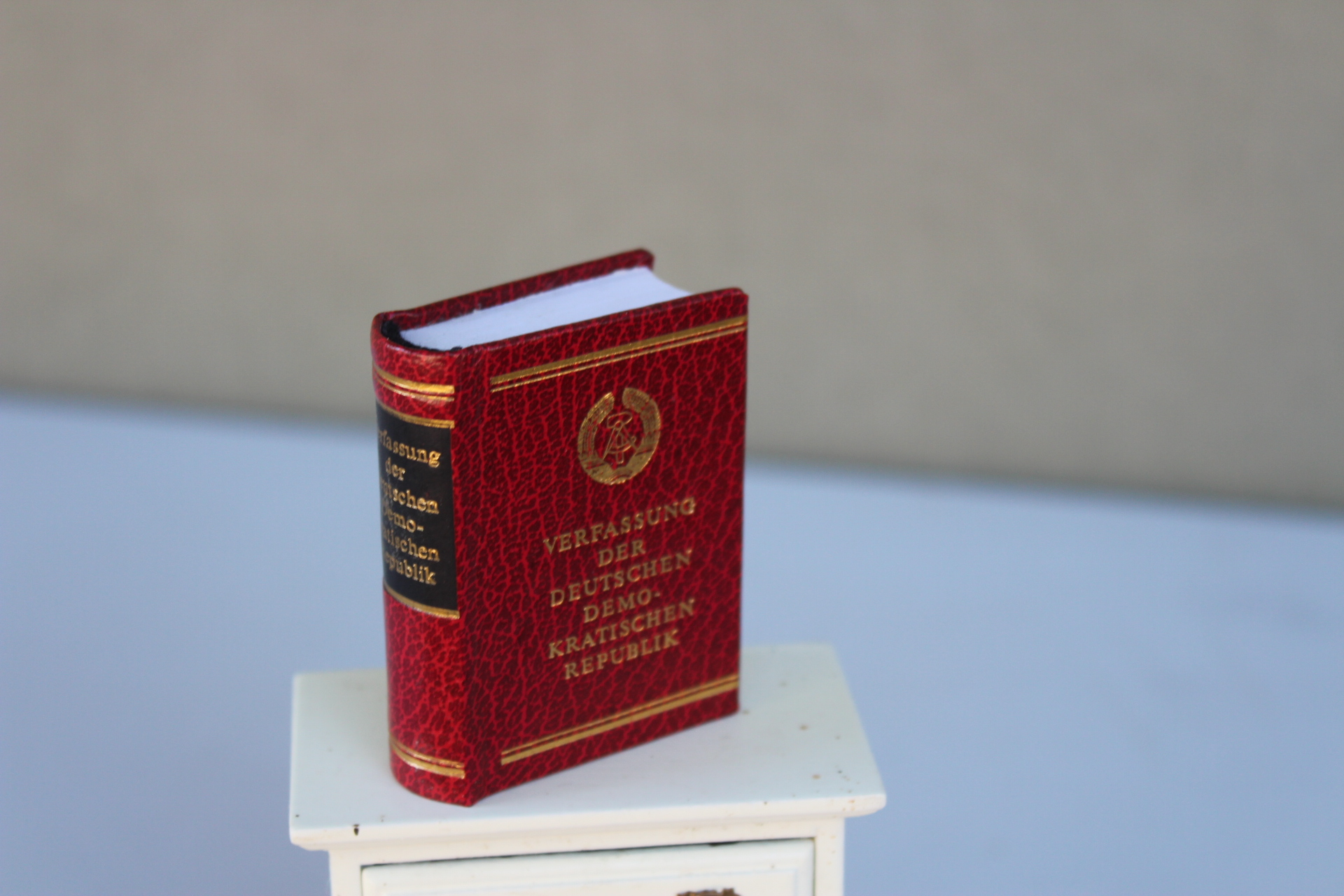 Constitution of East Germany (Miniature book)